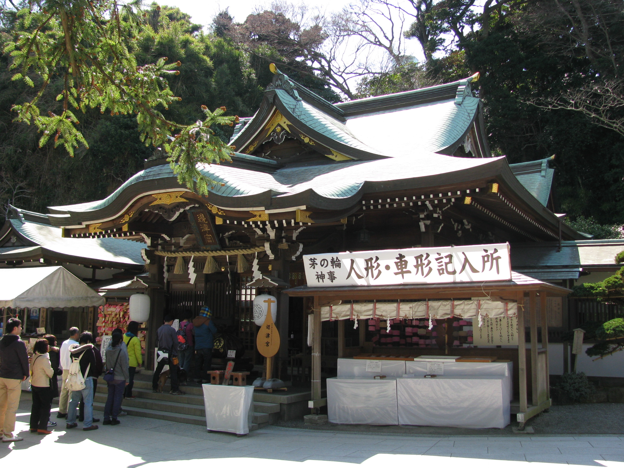 The Hetsu-miya of Enoshima Shrine. This place is Enoshima in Fujisawa, Kanagawa Prefecture, Japan.